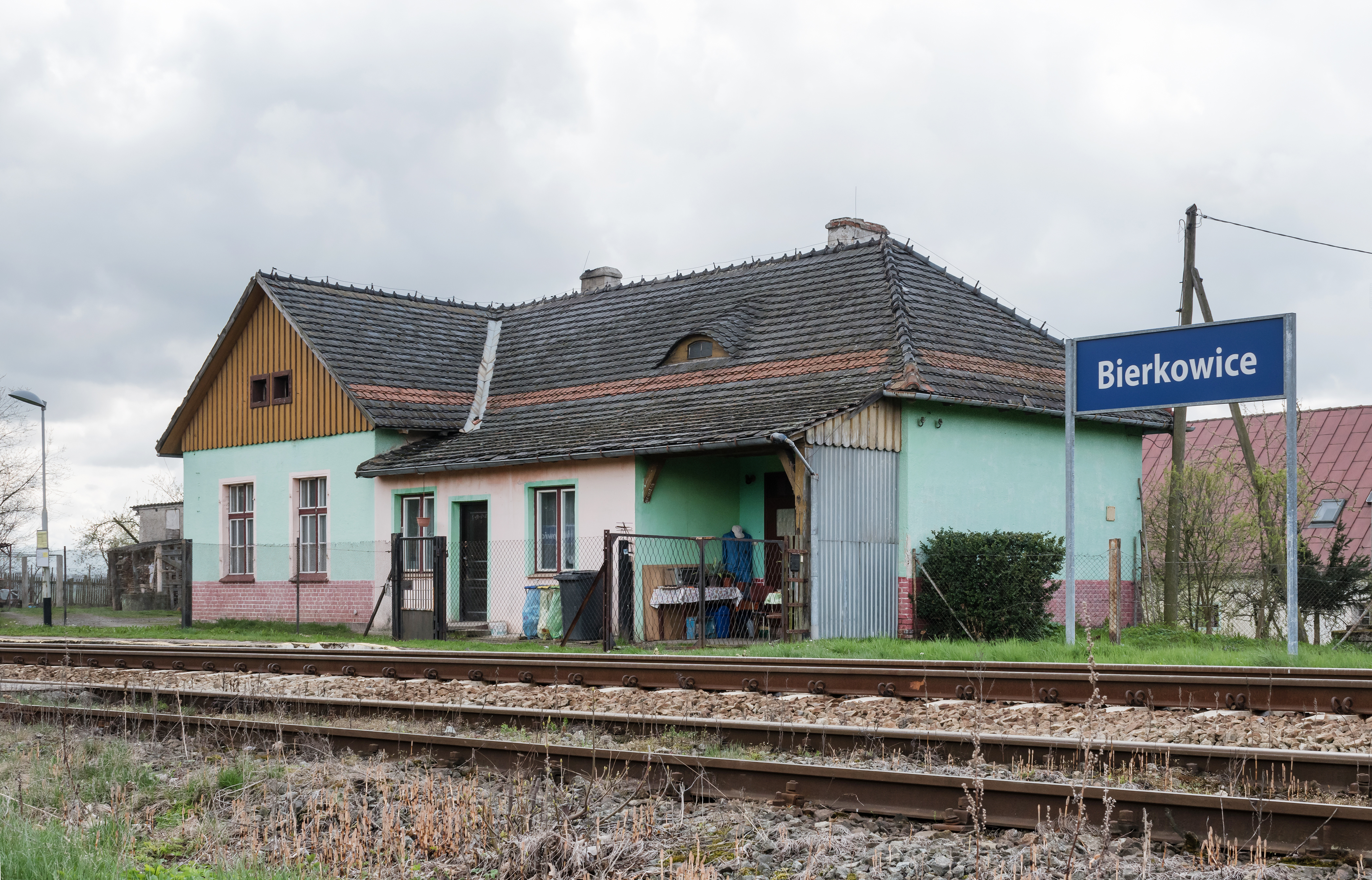 Train station in Bierkowice